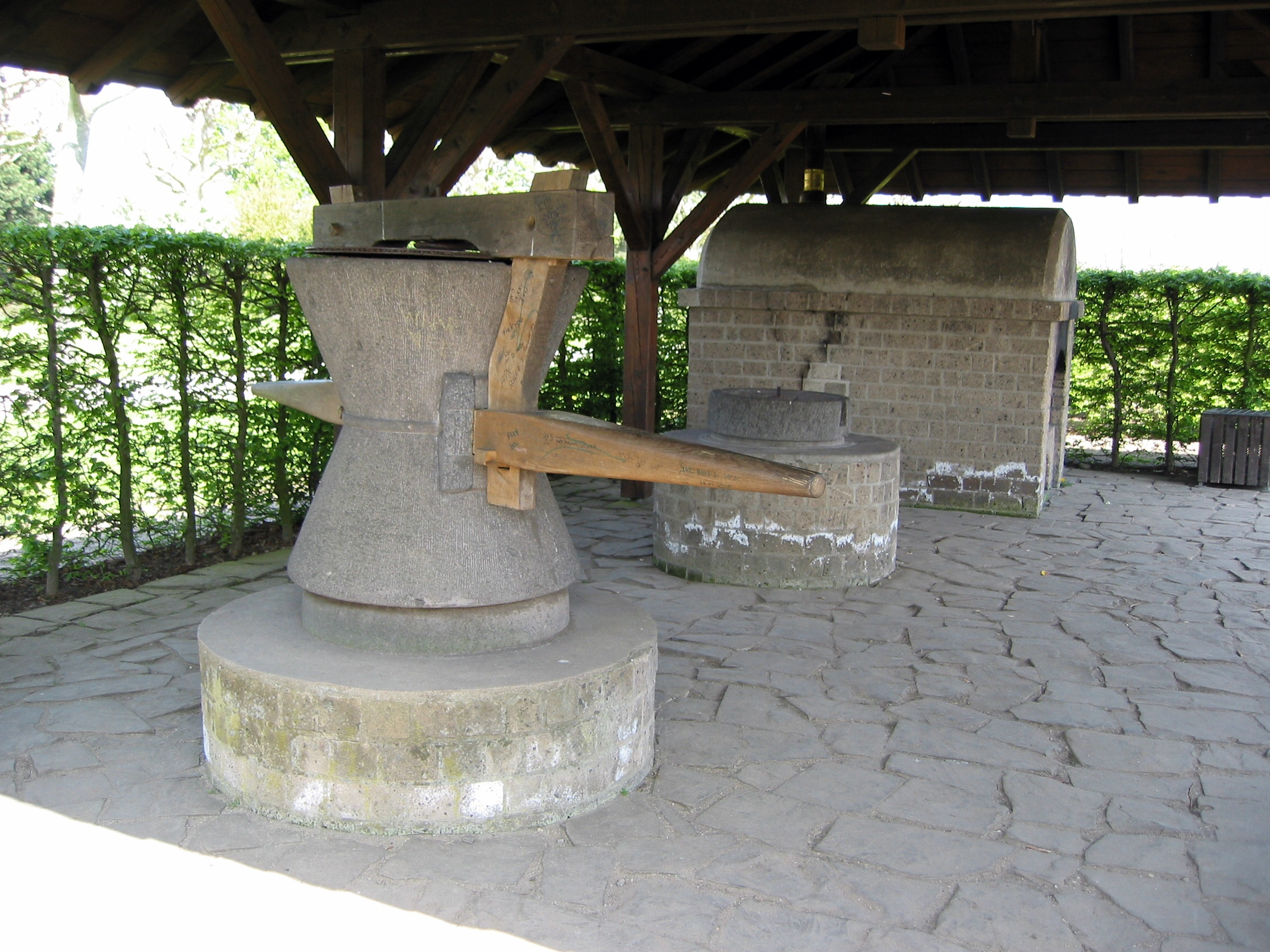 Photo taken April 23, 2005, by Magnus Manske, with expressed verbal permission. Colors/contrast enhanced with Picasa.